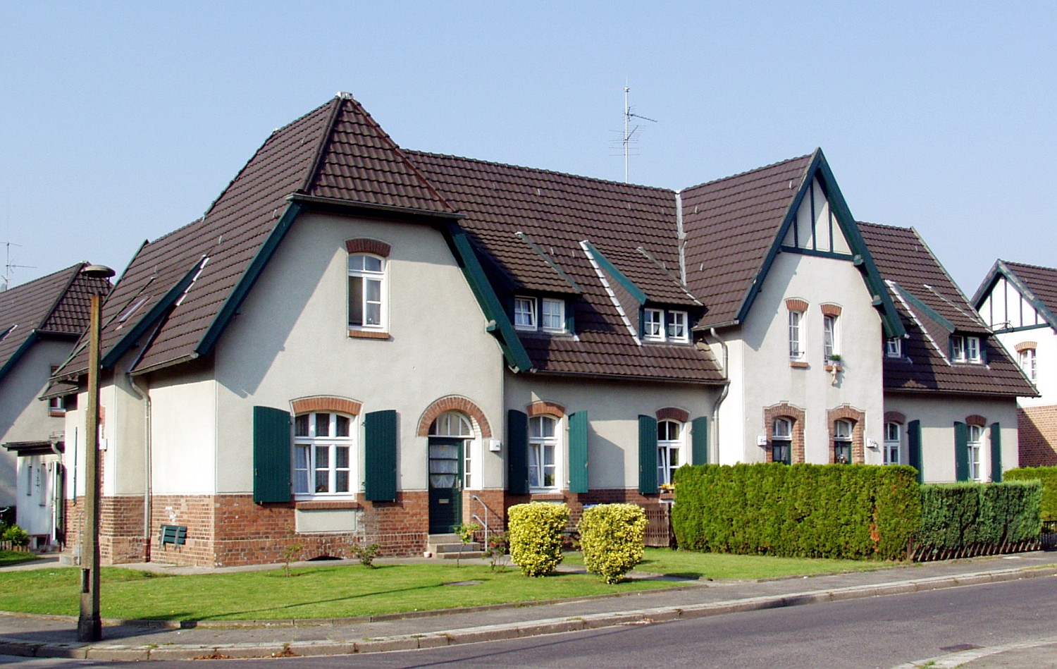 House of the miner colony "Meerbeck" in Moers, Germany